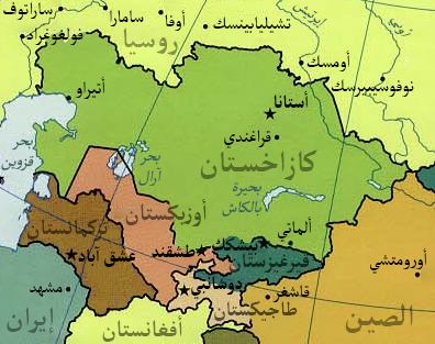 Central Asia political